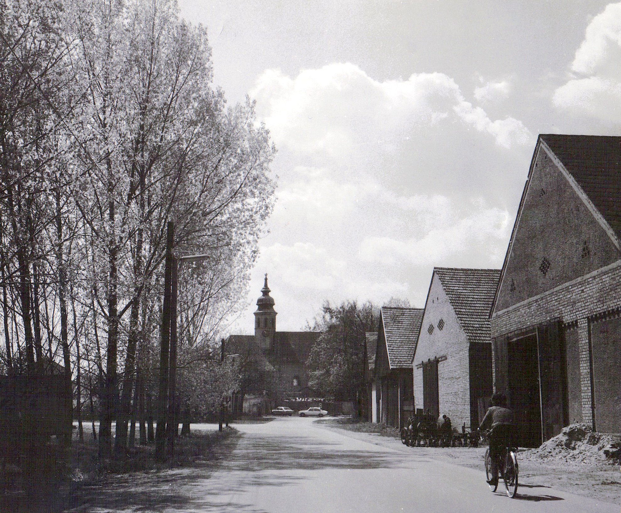 Östliche Scheunenstraße (i.e. Eastern Barns street) at Gerasdorf bei Wien, Lower Austria